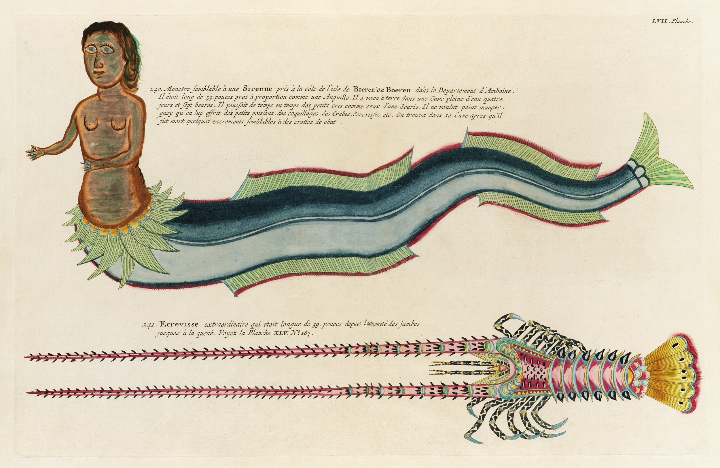 Illustrations of a siren and lobster found in the Moluccas (Indonesia) and the East Indies by Louis Renard (1678 -1746) from Histoire naturelle des plus rares curiositez de la mer des Indes (1754).